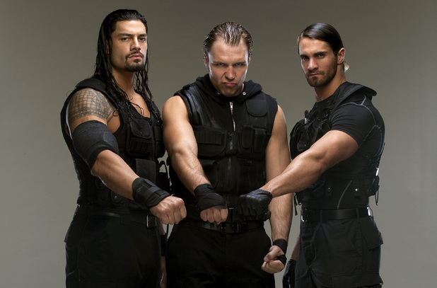 Seth Rollins, Dean Ambrose and Roman Reigns, all three members of The Shield who are the most prominent characters in the New Era.